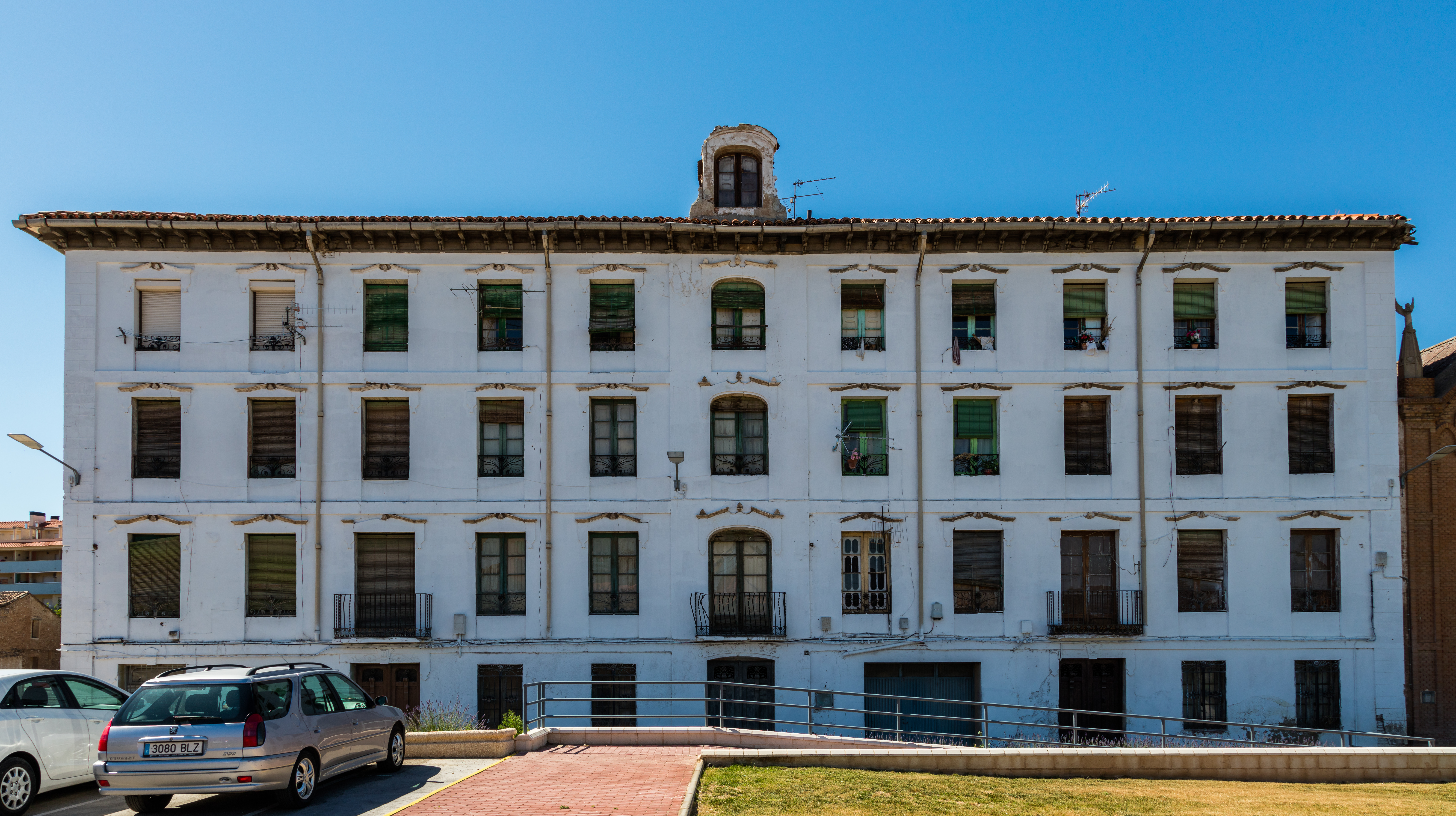 Old residential house, Explanada Estación street, Calatayud, Spain